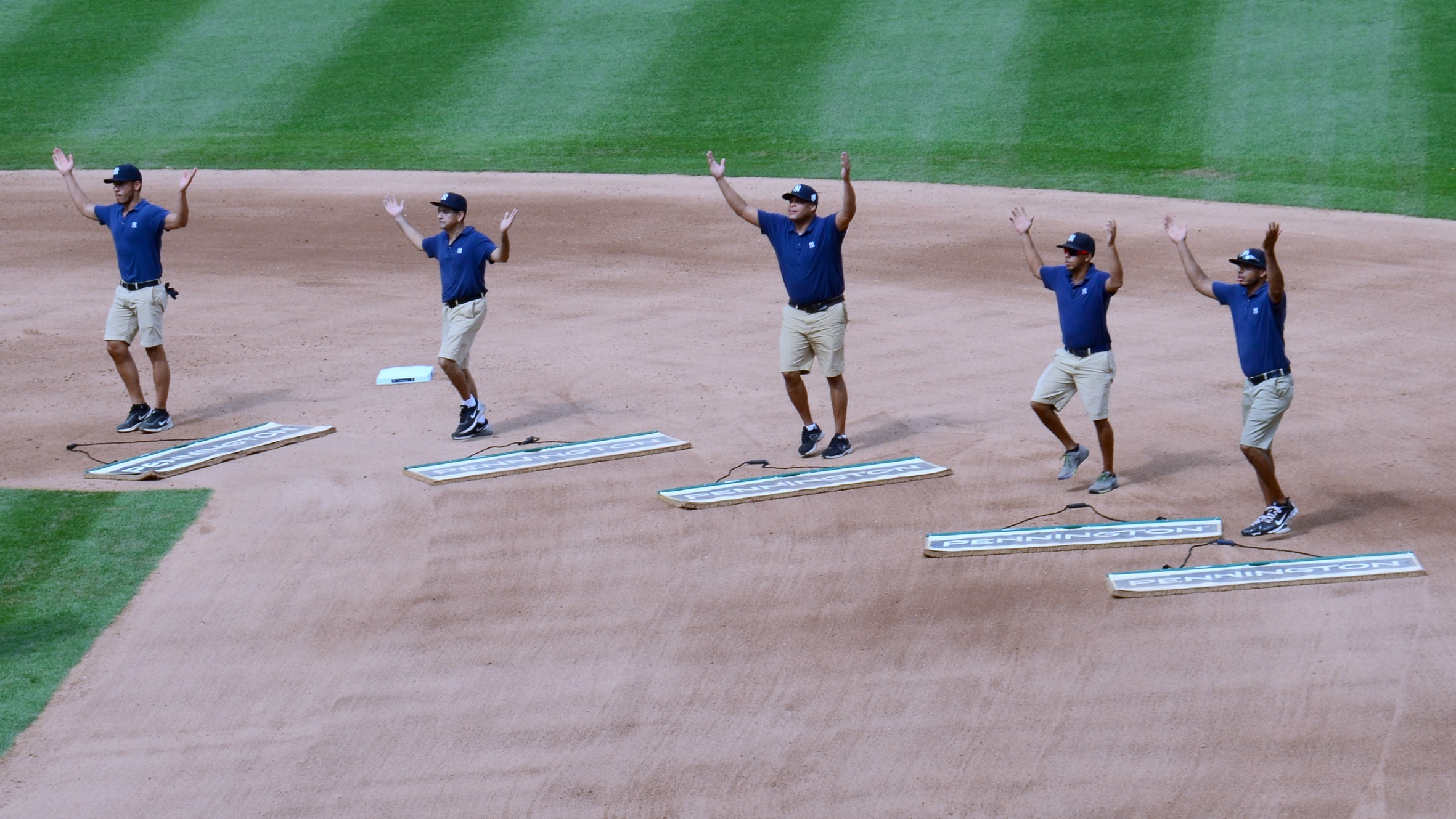 The grounds crew for Yankee Stadium performs the YMCA while attending to the infield during a game between the New York Yankees and the Tampa Bay Rays in the Bronx, New York City, New York on August 14, 2016